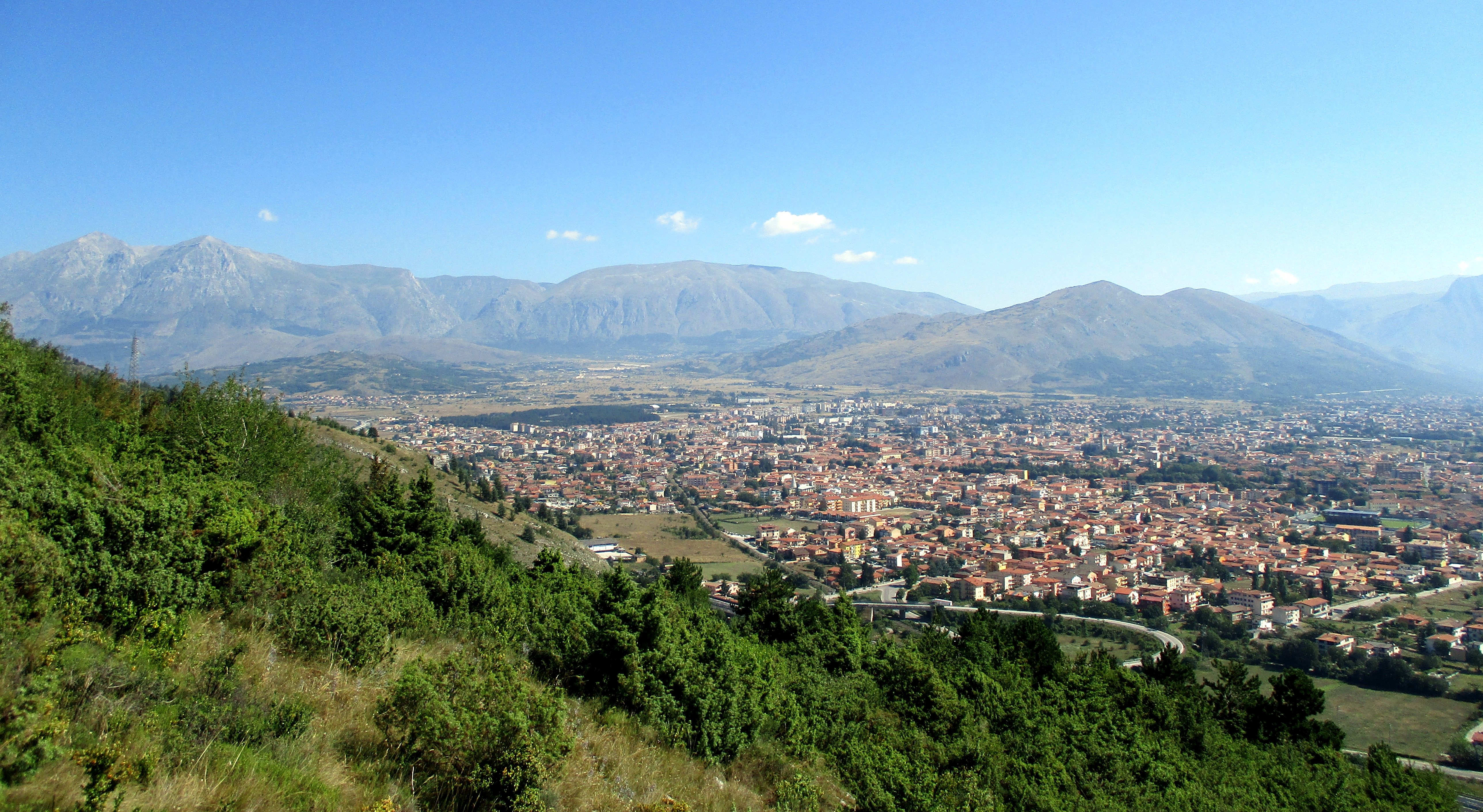 Panoramic view of Avezzano from mount Salviano, Abruzzo, Italy